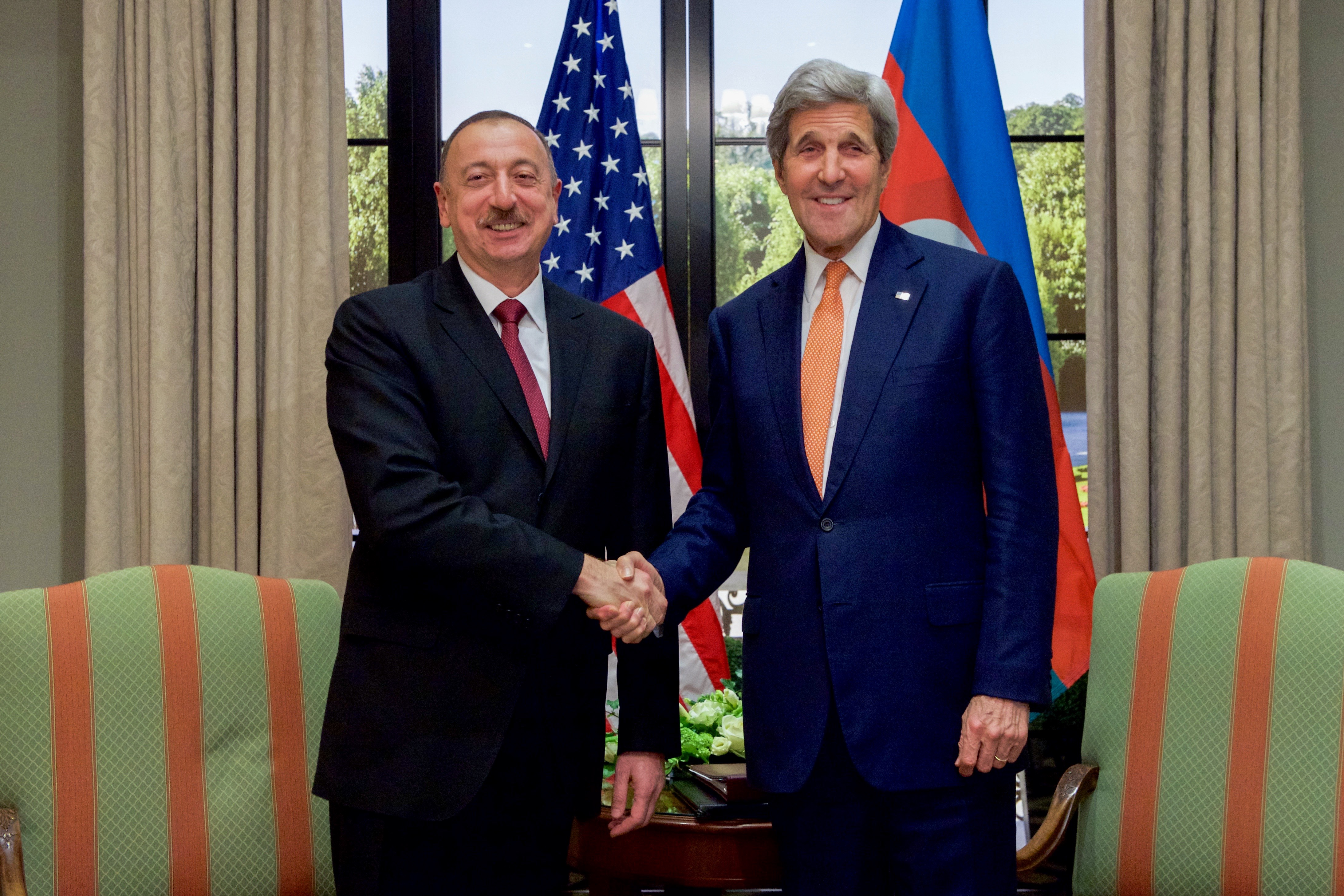 U.S. Secretary of State John Kerry shakes hands with Azerbaijani President Ilham Aliyev on May 16, 2016, at the Bristol Hotel in Vienna, Austria, before U.S., Russian, and French officials sat down with Armenian and Azarbaijani leaders in an effort to calm tensions over the disputed Nagorno-Karabakh region. [State Department photo/ Public Domain]